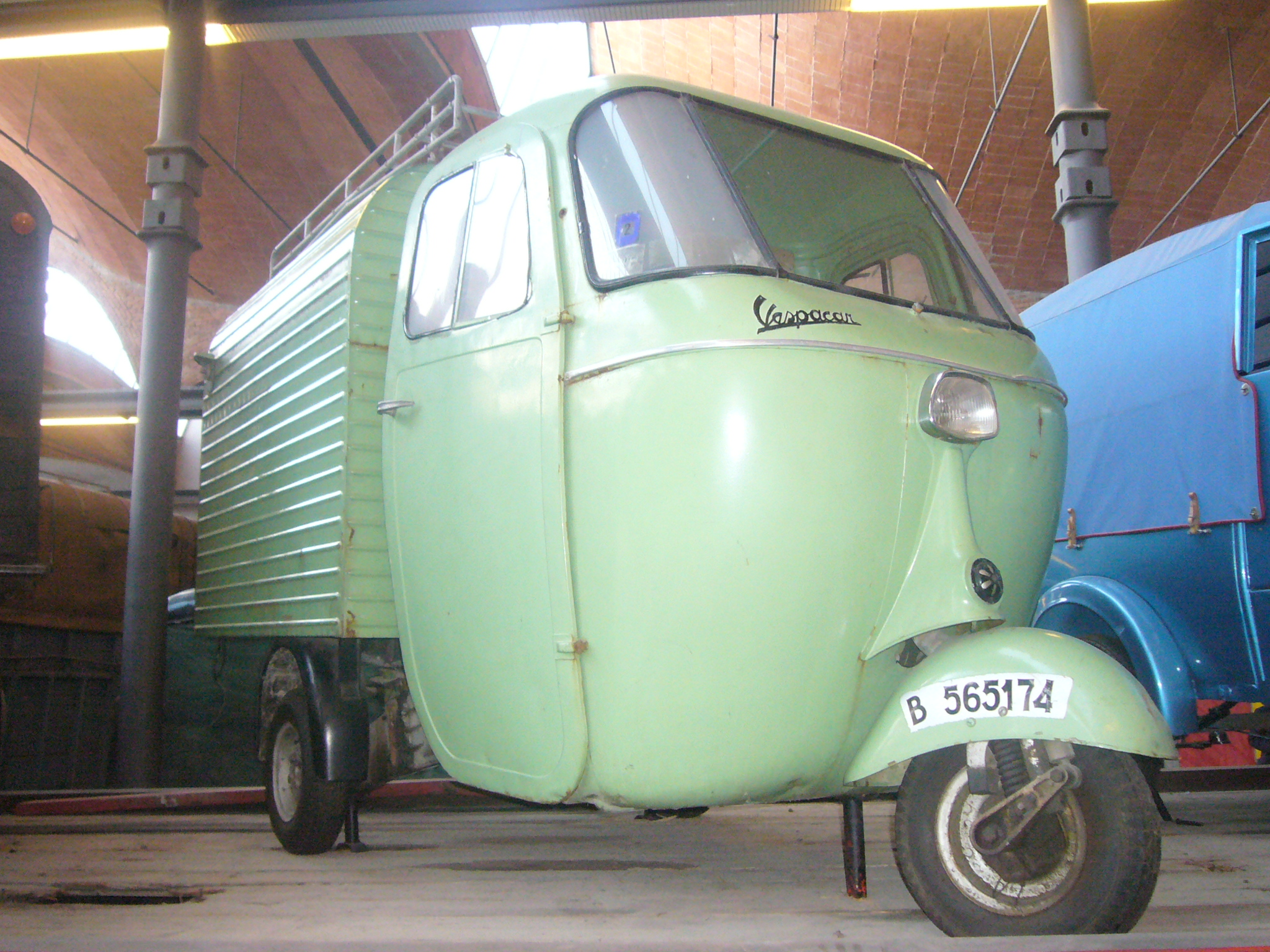 Vespacar - mnactec